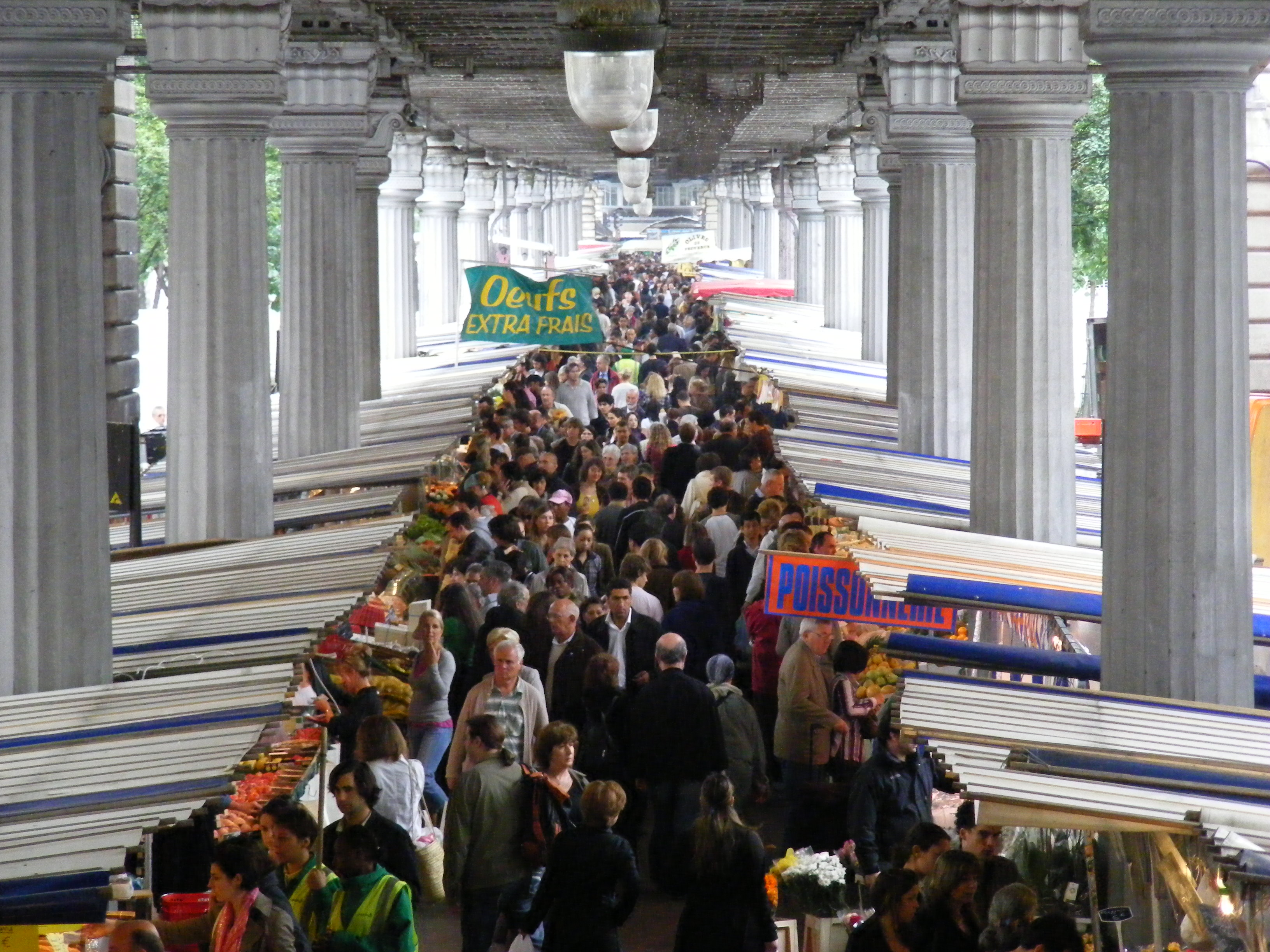 The market Grenelle is a public Paris market installed on Sunday and Wednesday mornings located on Boulevard Grenelle under the subway line 6 (elevated railroad) between "Dupleix" and "La Motte-Picquet - Grenelle" stations. The picture is taken on sunday morning (1st of june) from the half-floor of Dupleix station.